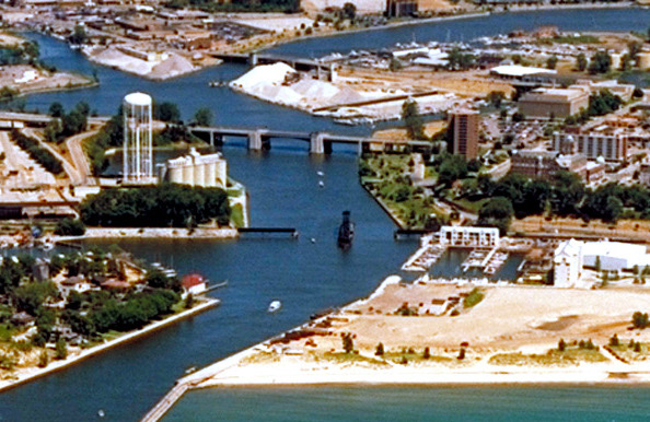 The NRHP-listed Blossomland Bridge (middle), in St. Joseph, Michigan. The bottom bridge is a swing rail bridge; the middle bridge is the Blossomland Bridge, a bascule bridge; and the topmost bridge is another bascule bridge. The three bridges cross the St. Joseph River. The image is undated, but predates 2000. link